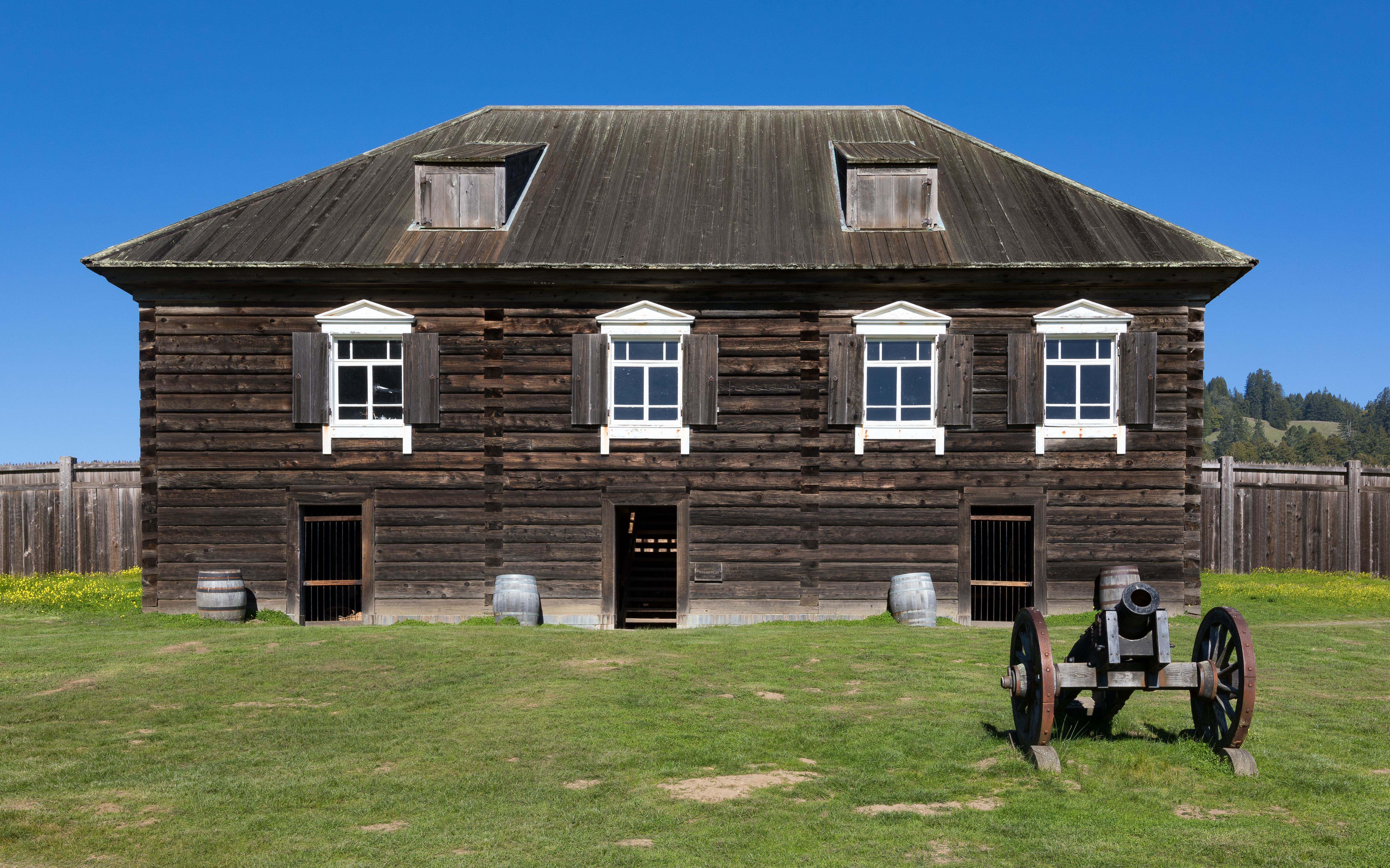 Kuskov House at Fort Ross in February 2020